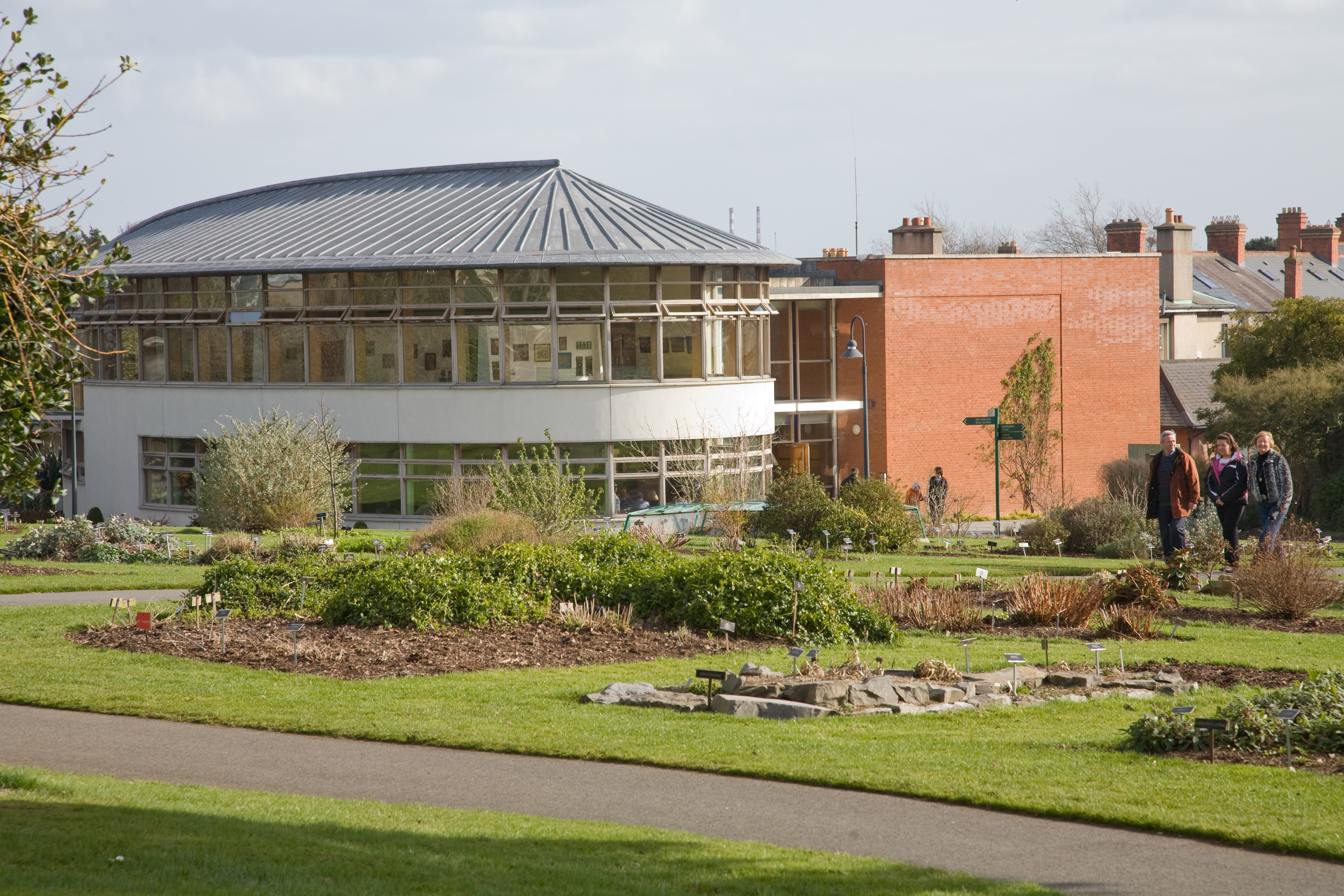 The Visitor Centre (opened in 2000), Irish National Botanic Gardens, Glasnevin, Dublin, Ireland.